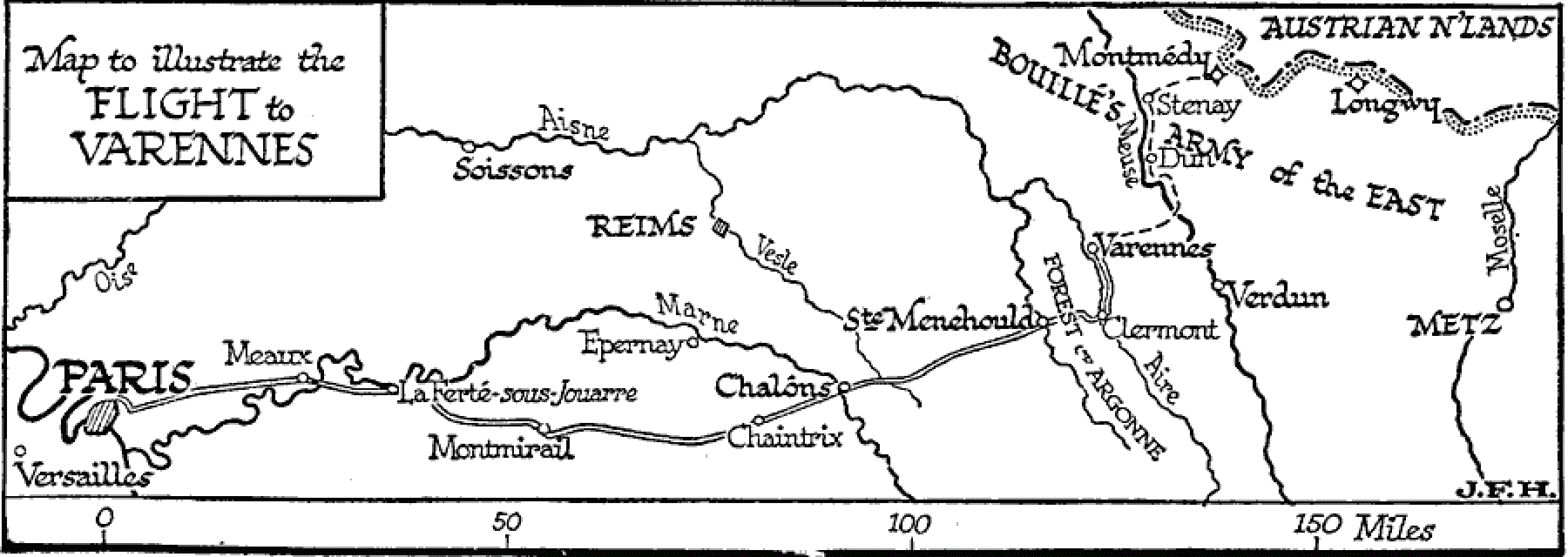 Flight to Varennes of Louis XVI and his family during the night of 20–21 June 1791